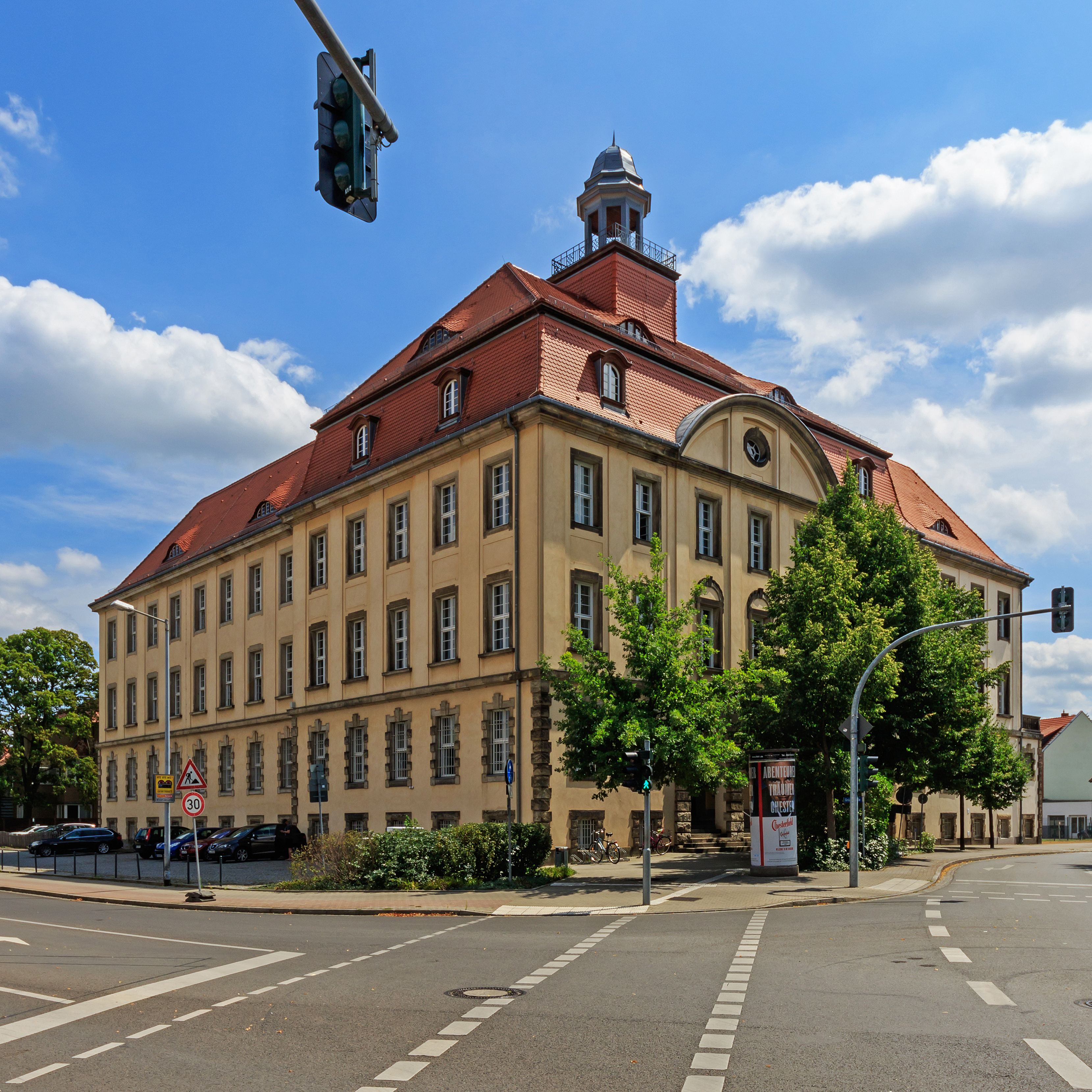 Courthouse in Senftenberg, Brandenburg, Germany